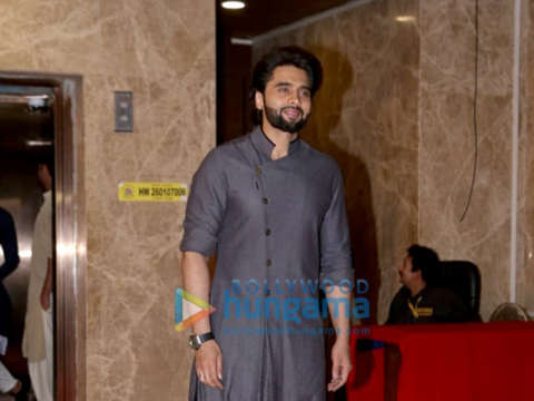 Jackky Bhagnani at Ramesh S Taurani’s Diwali bash